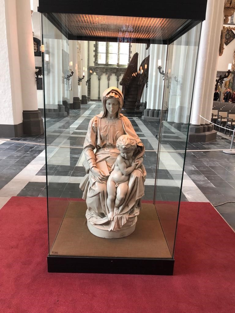 Michelangelo's Madonna in OLVrouwekerk in Bruges placed in a glass coffin